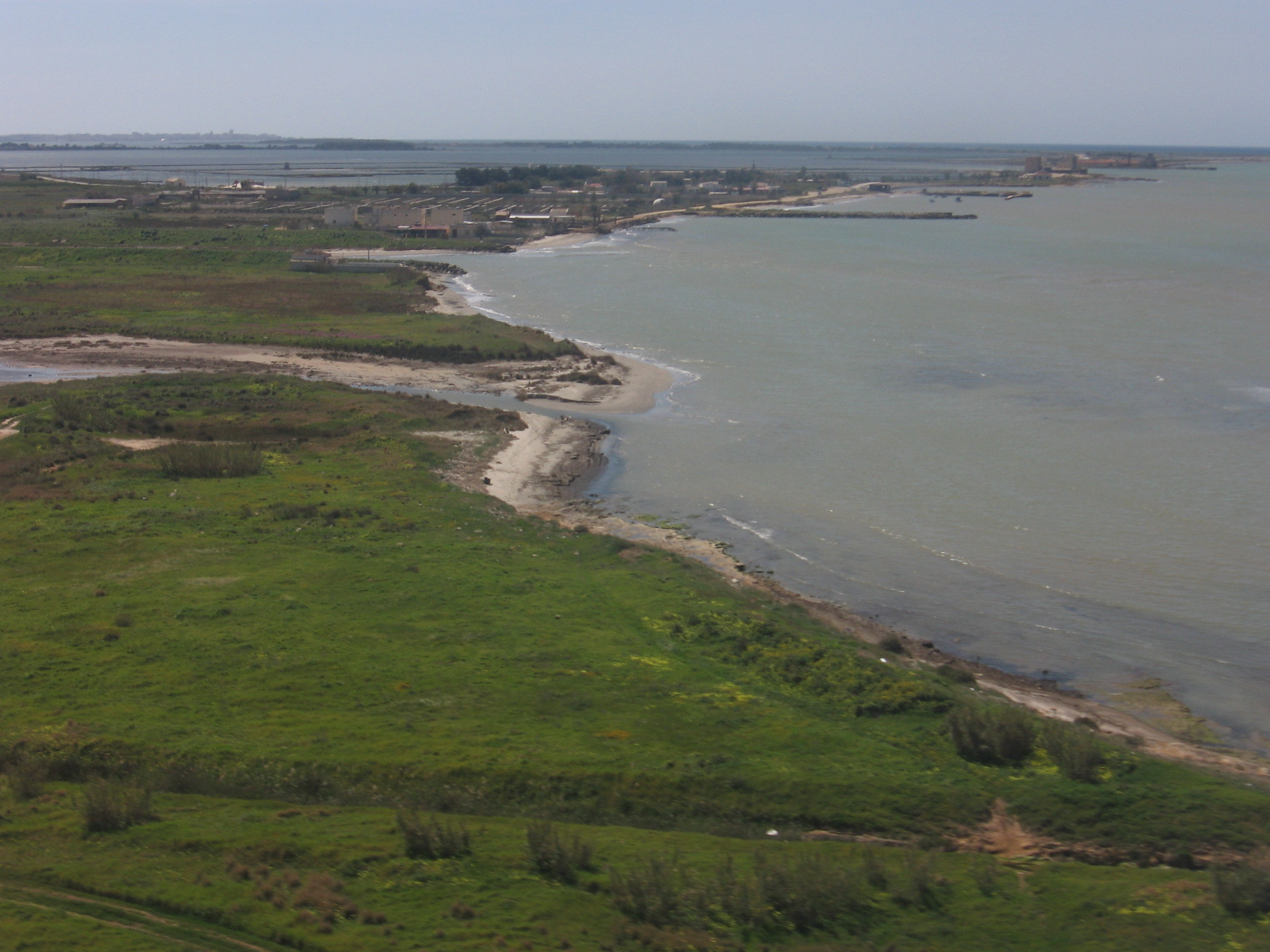 Birgi - San Teodoro